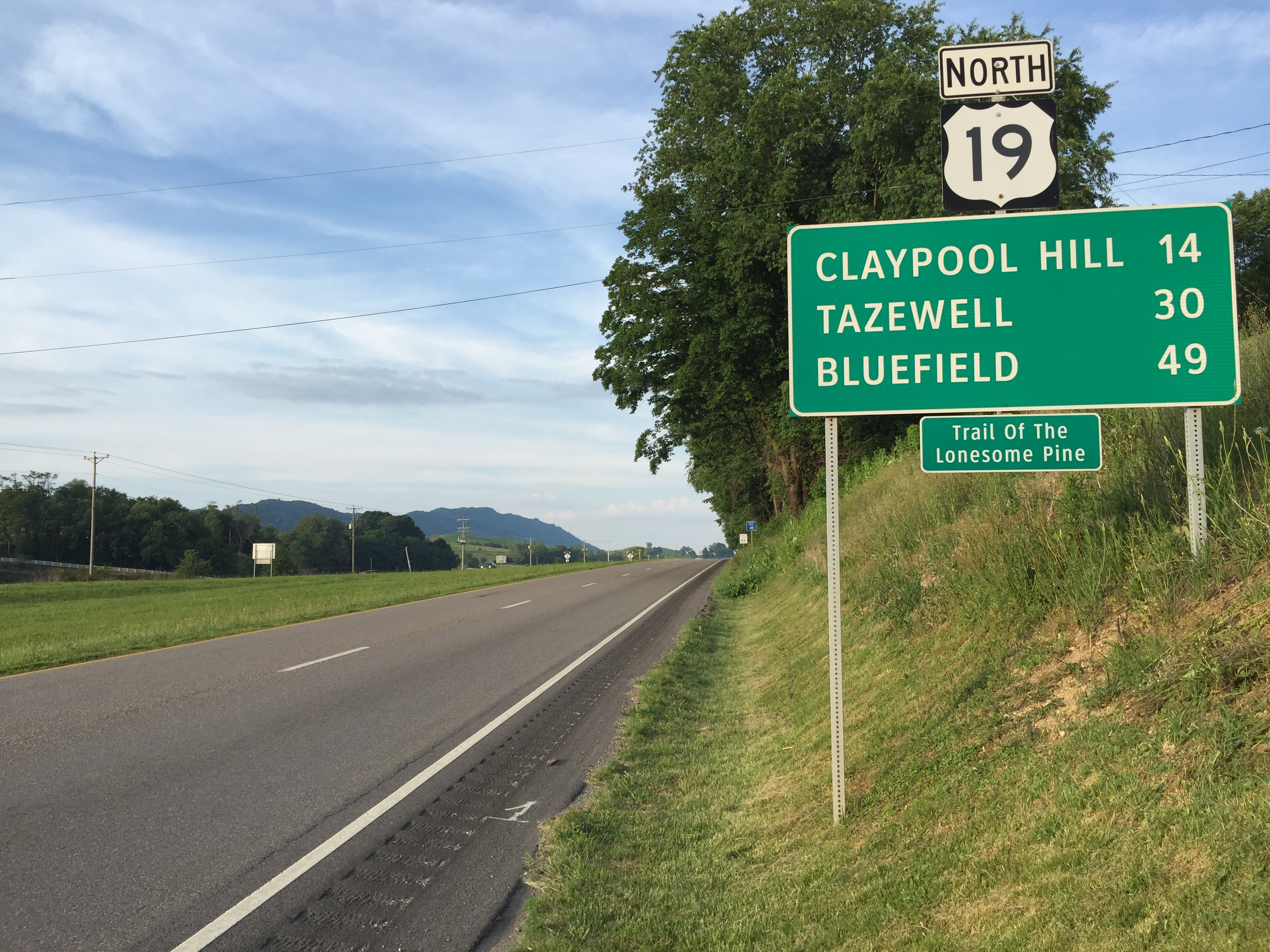 View north along U.S. Route 19 (Trail of the Lonesome Pine) at Virginia State Route 80 (Redbud Highway) in Rosedale, Russell County, Virginia